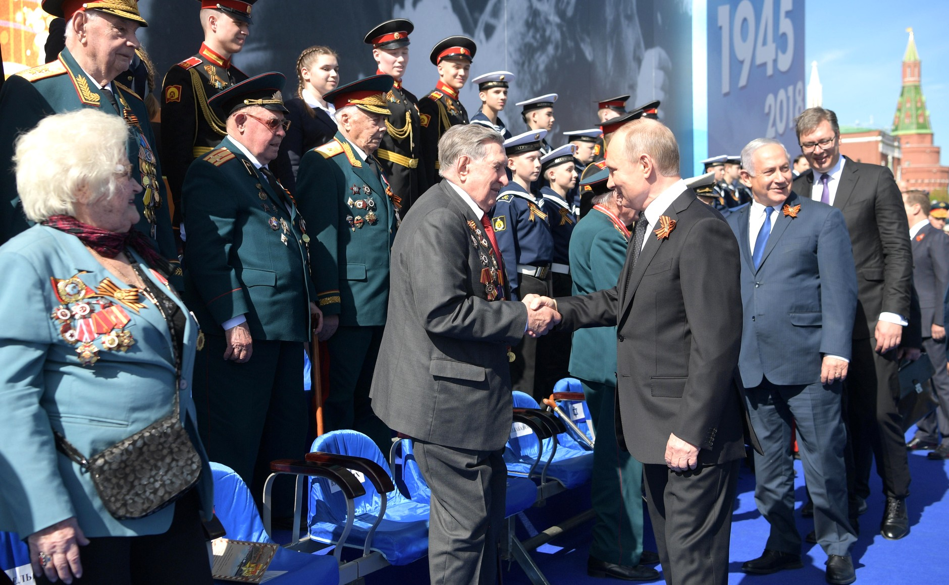 2018 Moscow Victory Day Parade